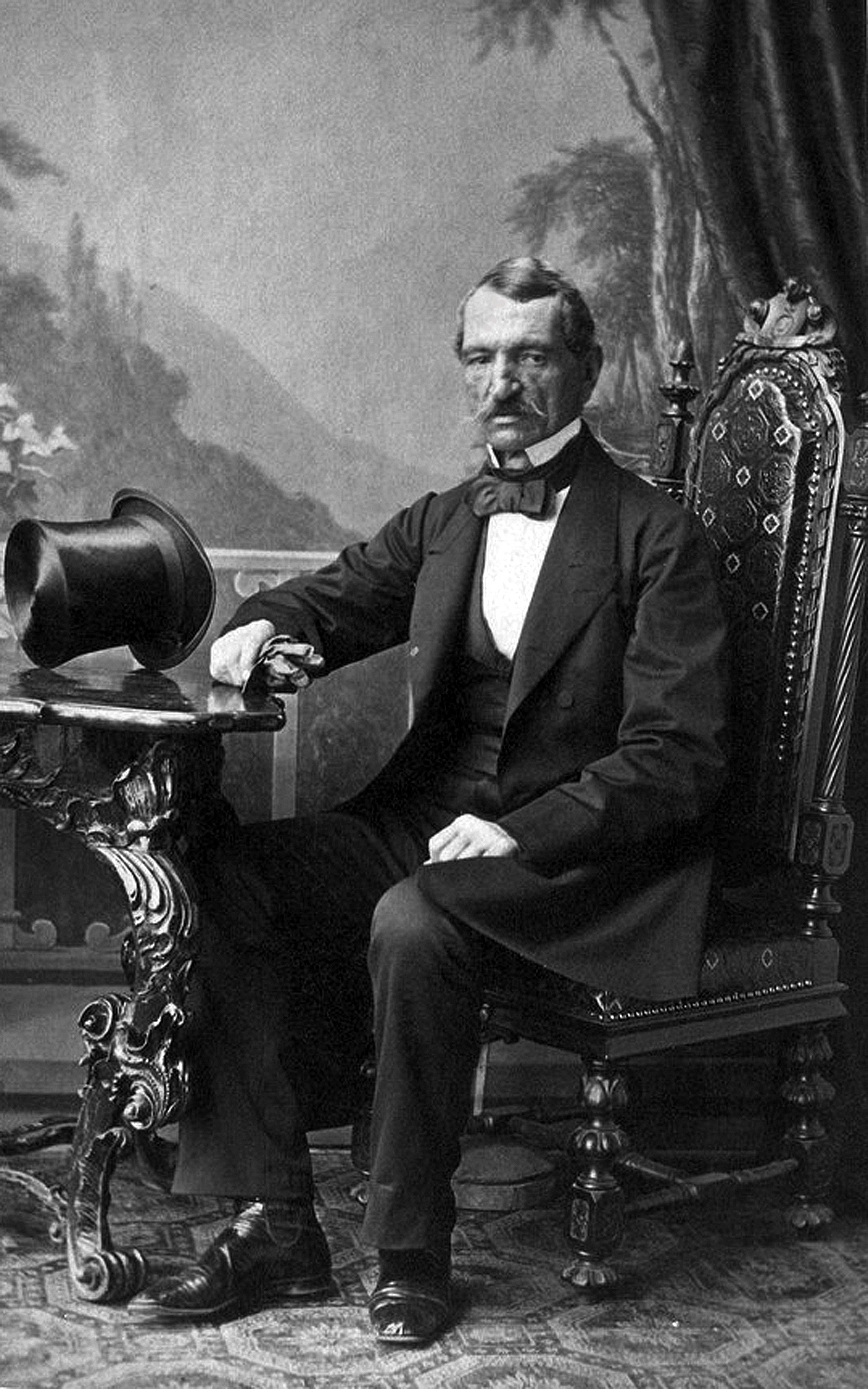 Ilija Garašanin, politician and statesman